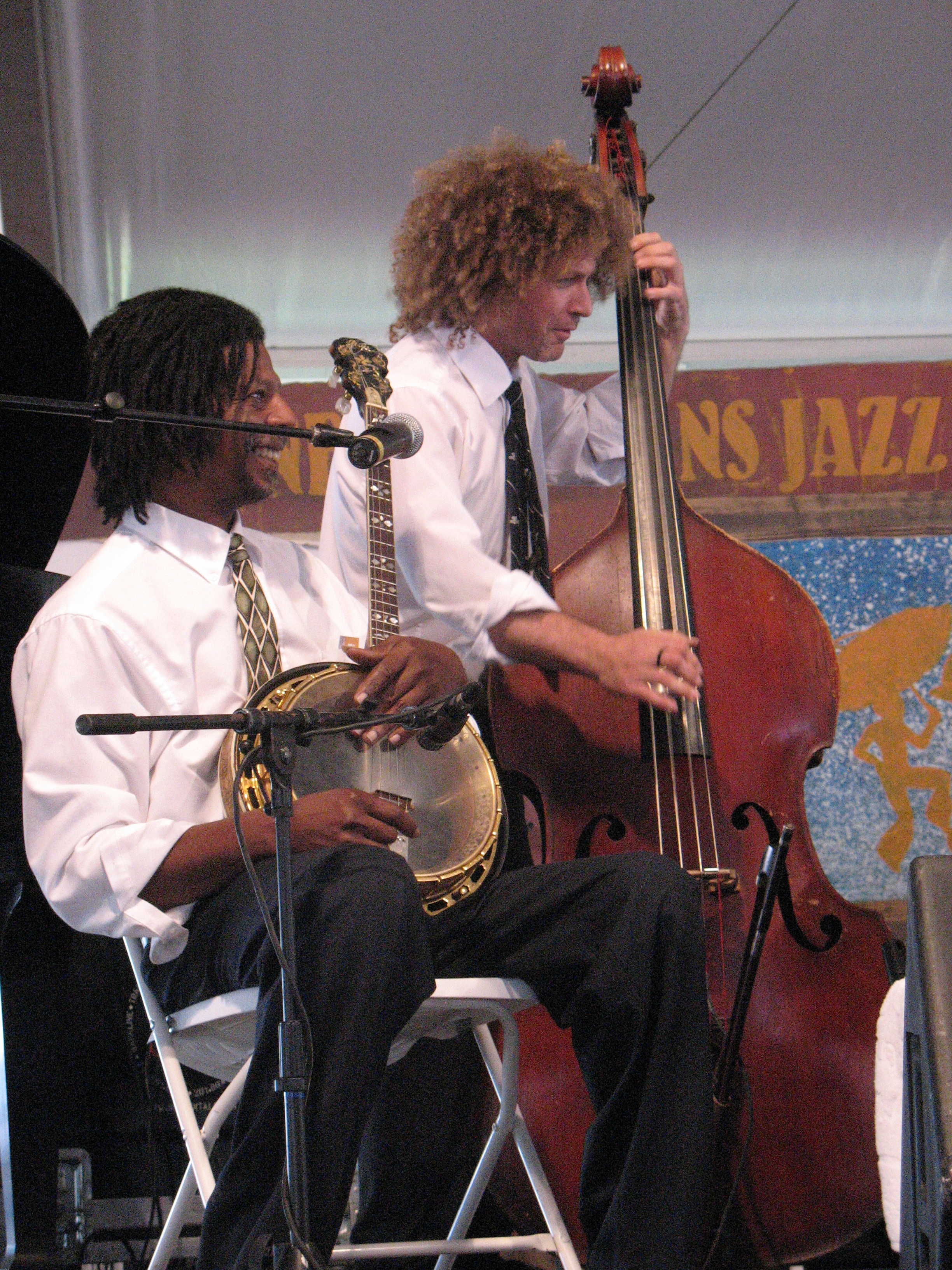 Preservation Hall Jazz Band at JazzFest 2008. Carl LeBlanc on banjo, Ben Jaffe on String bass.